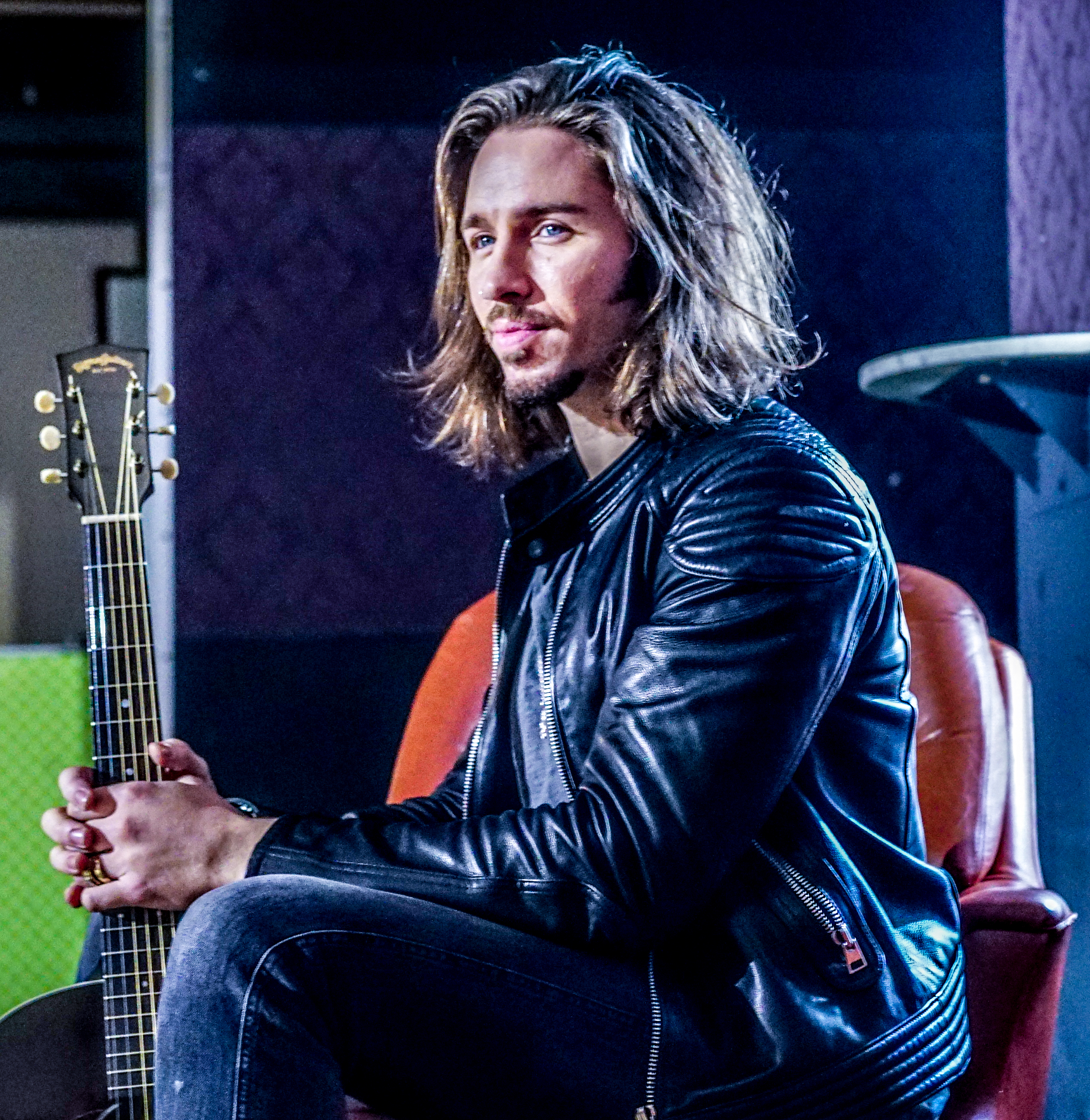 Gil Ofarim im Kieler Max Nachttheater, 2018